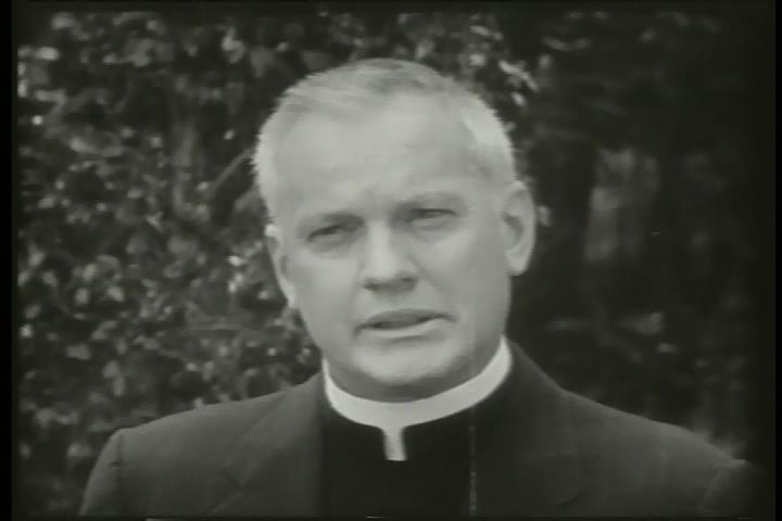 A scene from The Screaming Skull, a 1958 film directed by Alex Nicol.